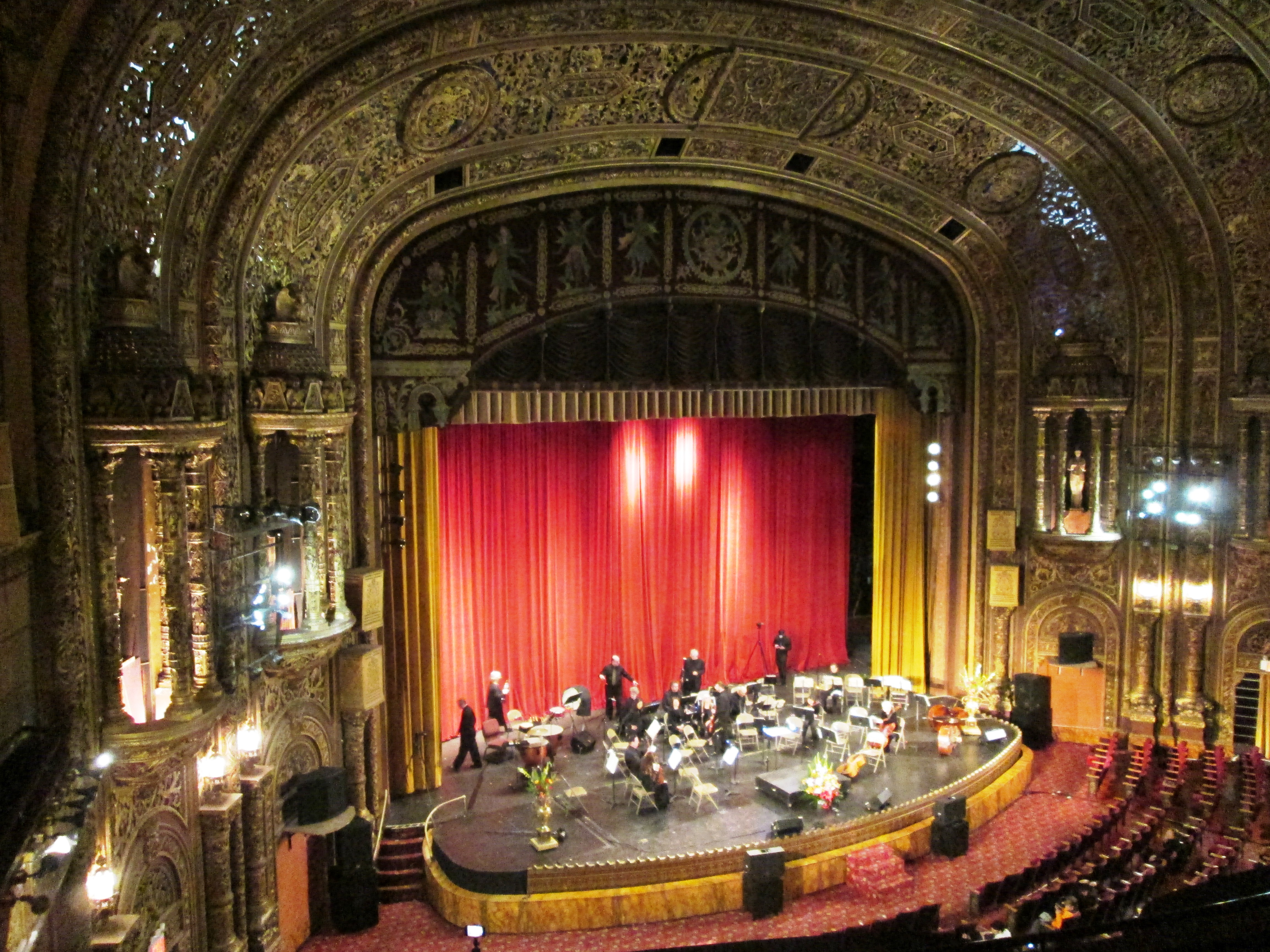 The United Palace is a former movie and vaudeville theatre now used as a church and live music venue, located at 4140 Broadway between West 175th and 176th Streets in the Washington Heights neighborhood of Manhattan. New York City. It was built and opened in 1930 as the Loew's 175th Street Theatre, a movie palace, and was designed by Thomas W. Lamb in an eclectic mix of styles. It was purchased in 1969 by evangelist "Reverend Ike" to be the headquarters for his United Church Science of Living Institute. The historic theatre, renamed the Palace Cathedral was restored by the church.